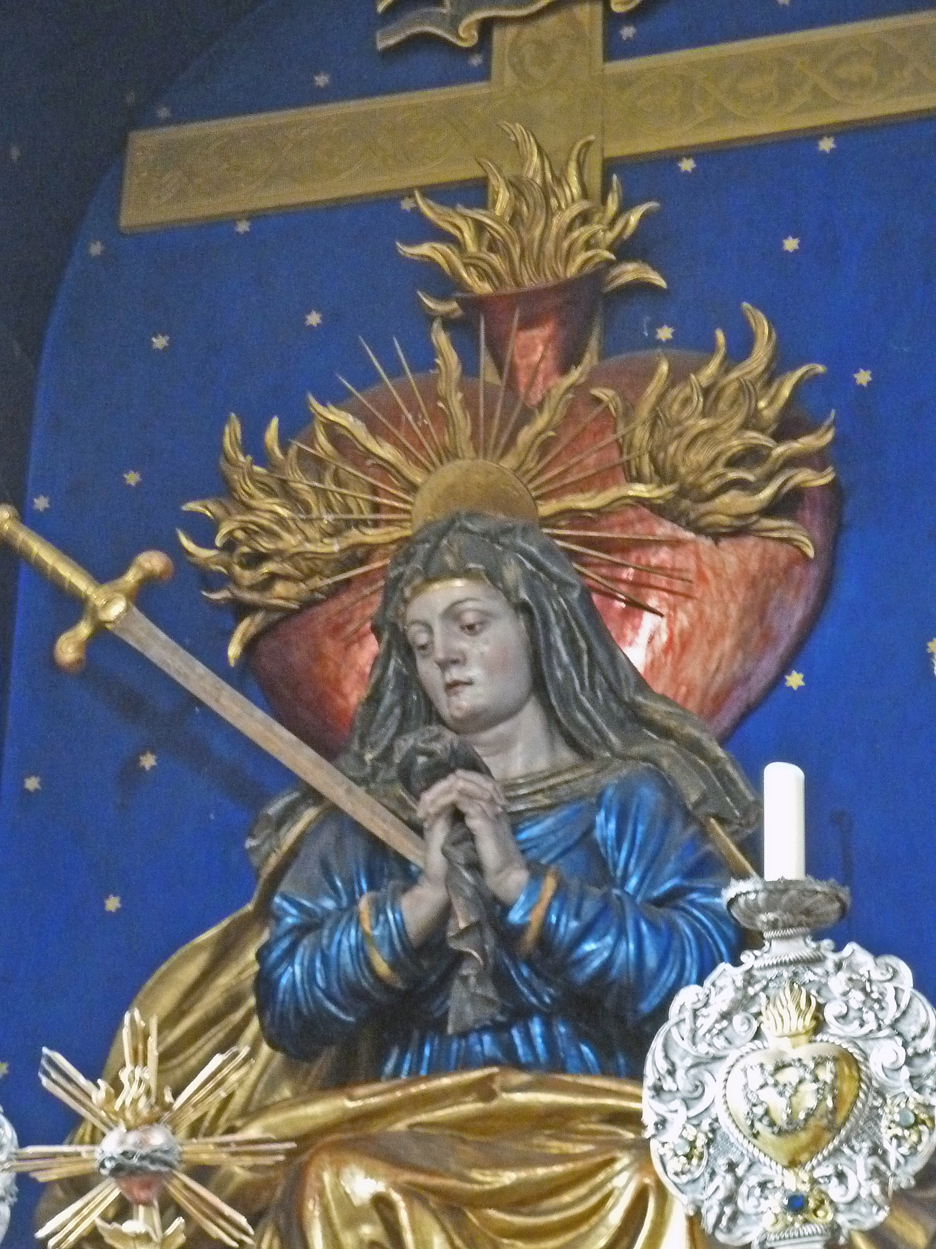 altar-screen Seven ache Maria